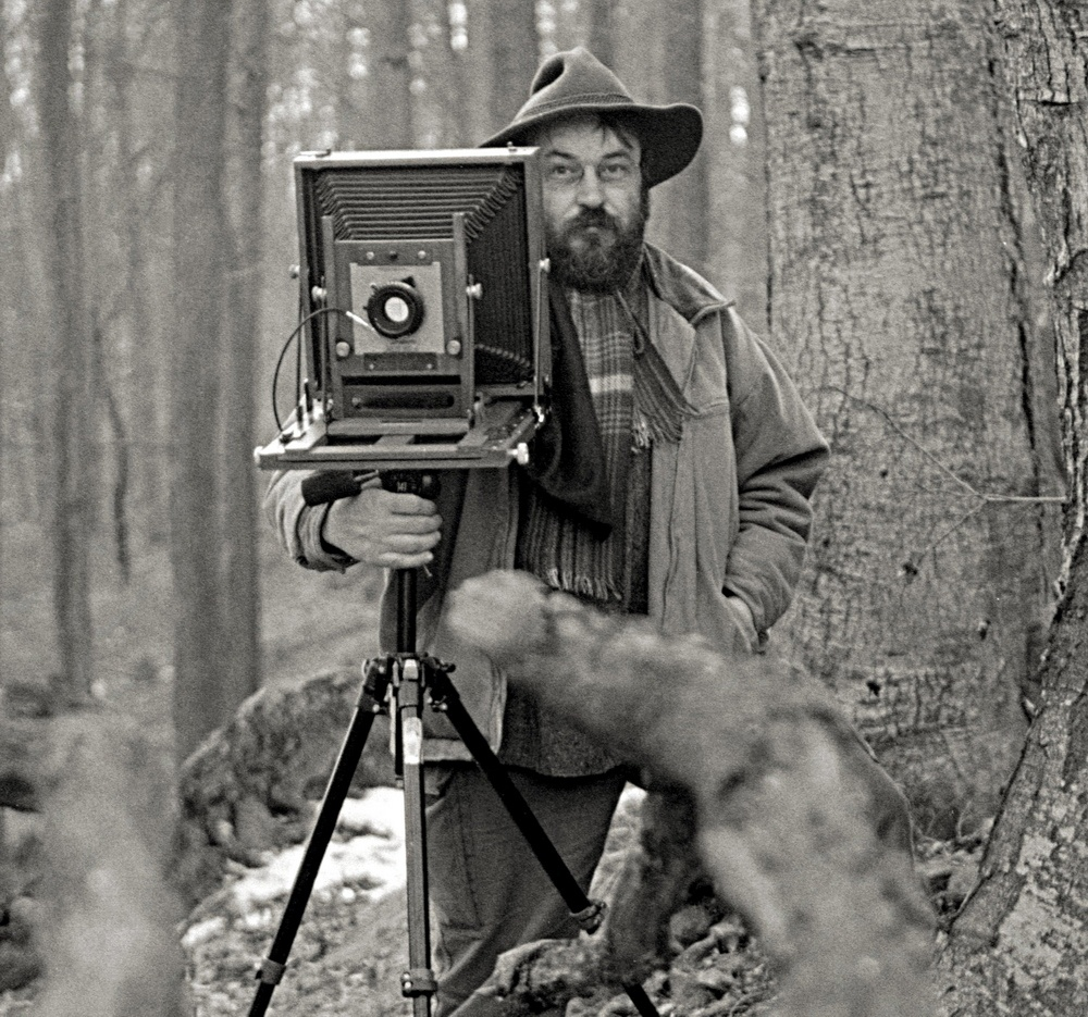 Czech photographer Bohumír Prokůpek (1954-2008)